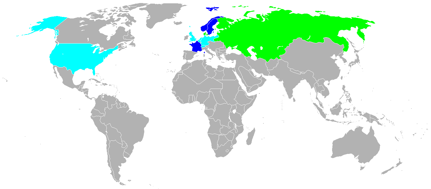 Countries that participated in the Sailing event of the 1912 Olympic Games. Blue: Water Gray: Never participated in OG Dark Gray: Participated in earier OG Green: Country participated for the first time Dark Blue: Country participated also on previous games Red: Country boycotted the sailing event of the OG